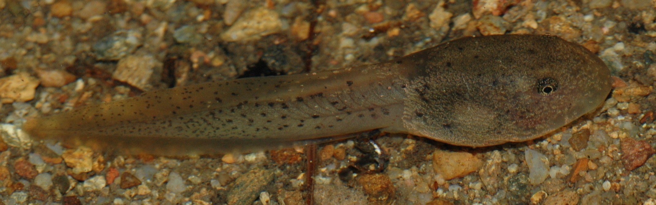 Fleay's Barred Frog (Mixophyes fleayi) tadpole , Springbrook National Park, QLD Australia.